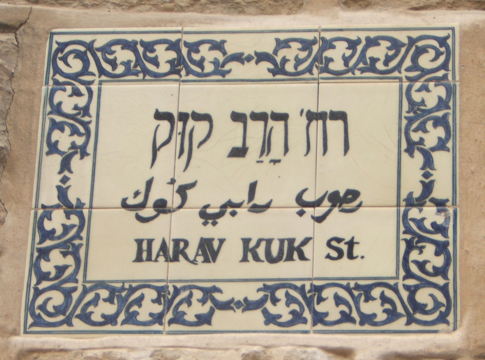 Rabi Kook (Harav Kuk} street, Jerusalem - Old Quarter "Beit David" in Jerusalem (Named after the philanthropist David Reyes). House of Rav Kook and first location of Mercaz HaRav Yeshiva.